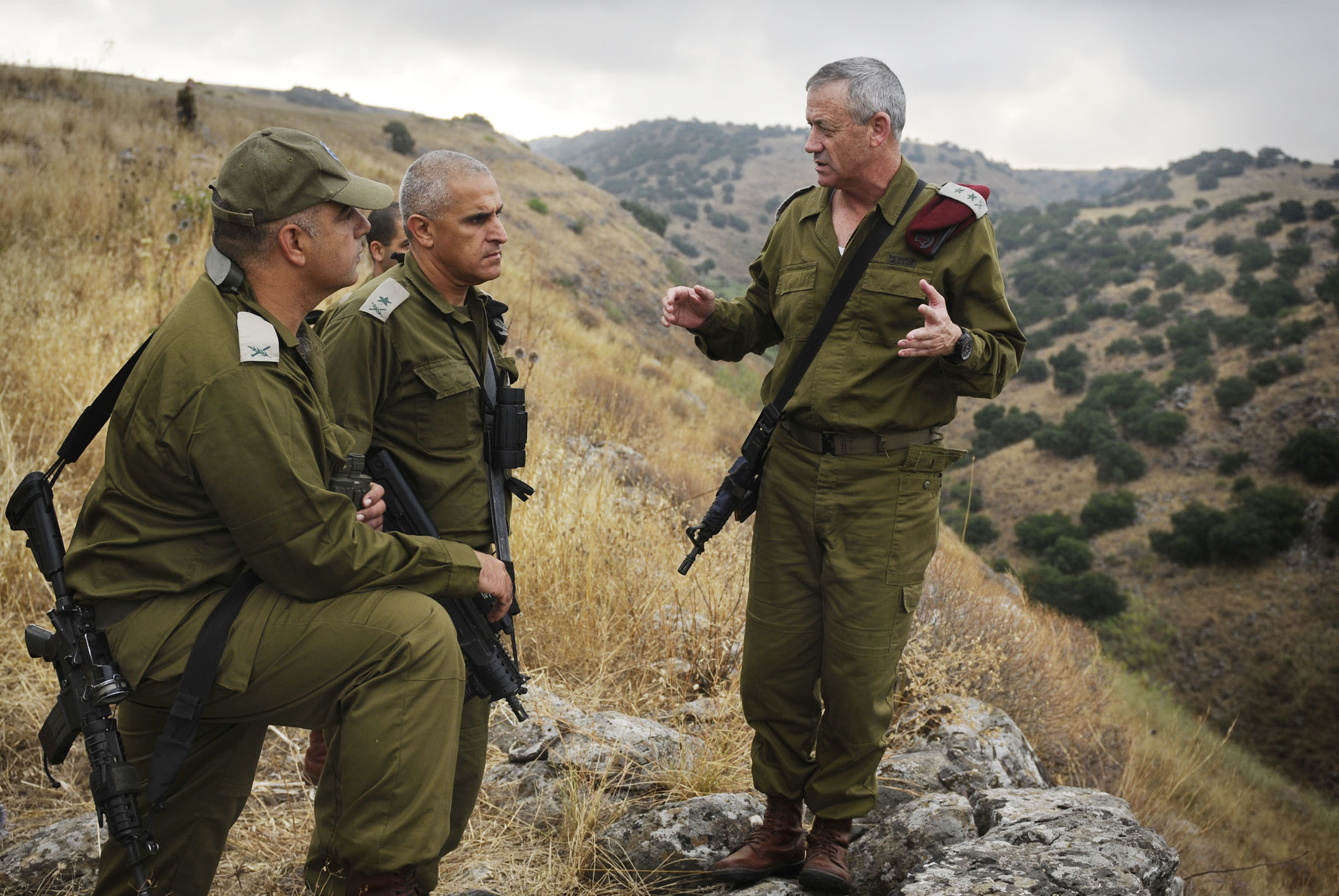 The Israel Defense Forces Facebook • blog • Twitter